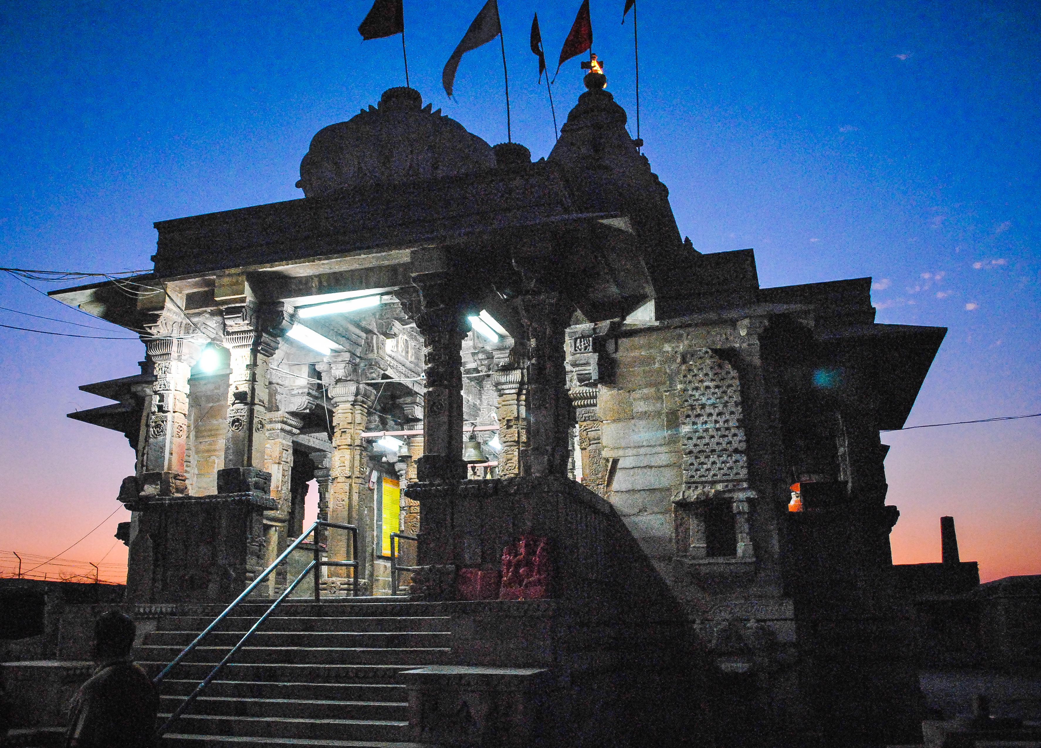 Rajasthan-Chittoregarh